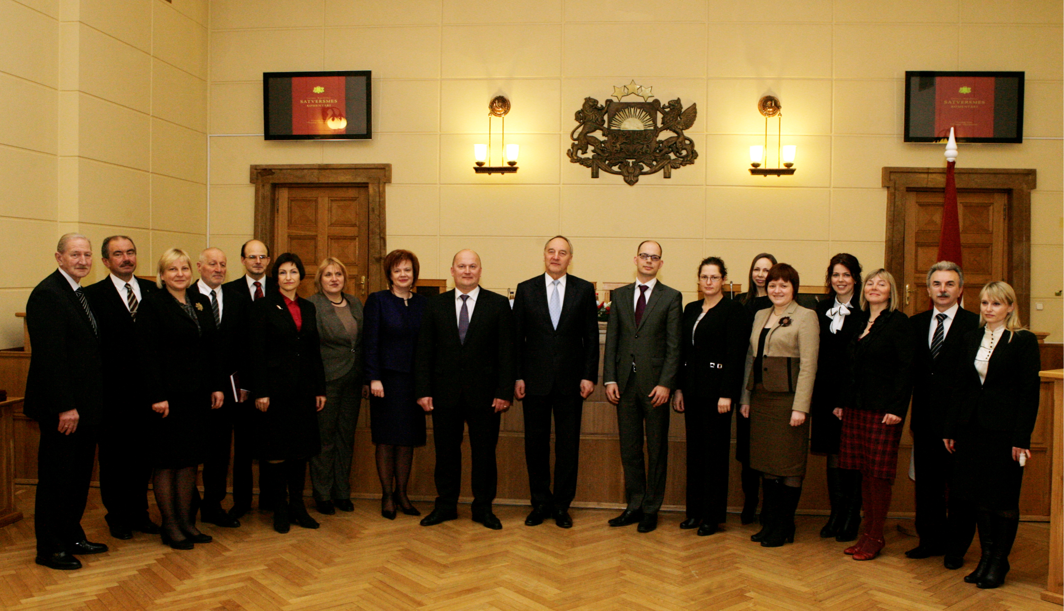 Dalība Satversmes komentāru VI un VII nodaļas atklāšanas pasākumā 15.02.2013.